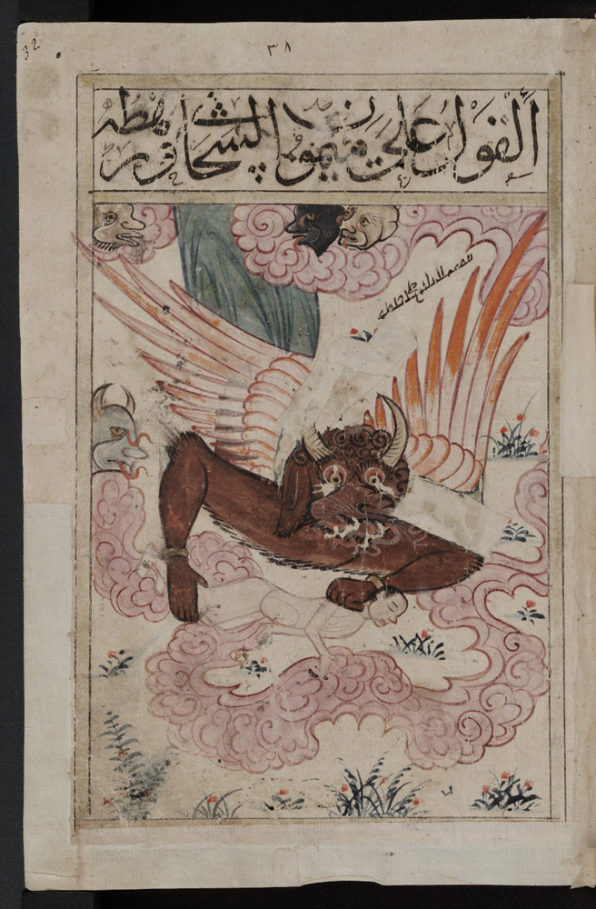 Maymūn, the demon king of Saturday. Demon portrait. Page from a manuscript known as Kitab al-bulhan or "Book of Wonders" held at the Bodelian Library. Shelfmark: MS. Bodl. Or. 133